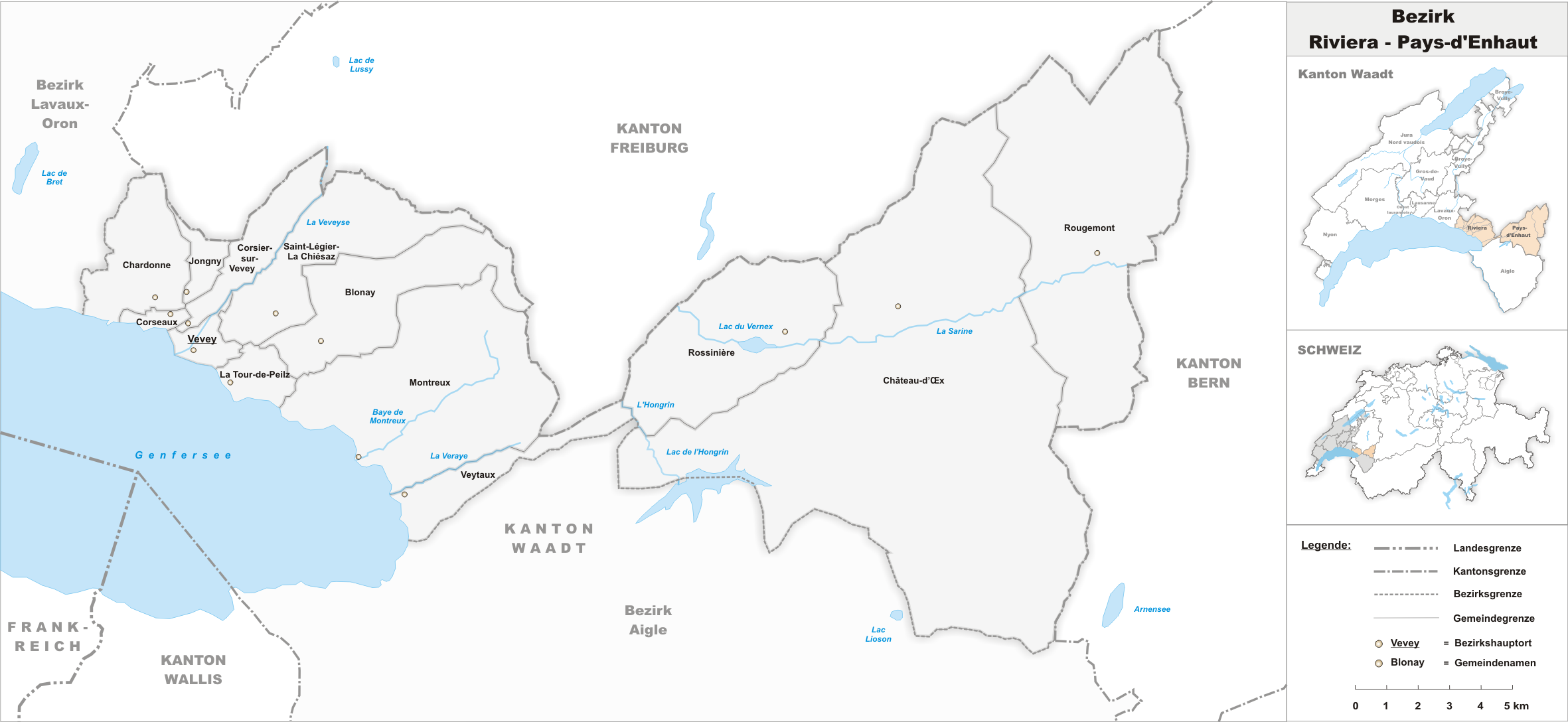 Municipalities in the district of Riviera - Pays-d'Enhaut